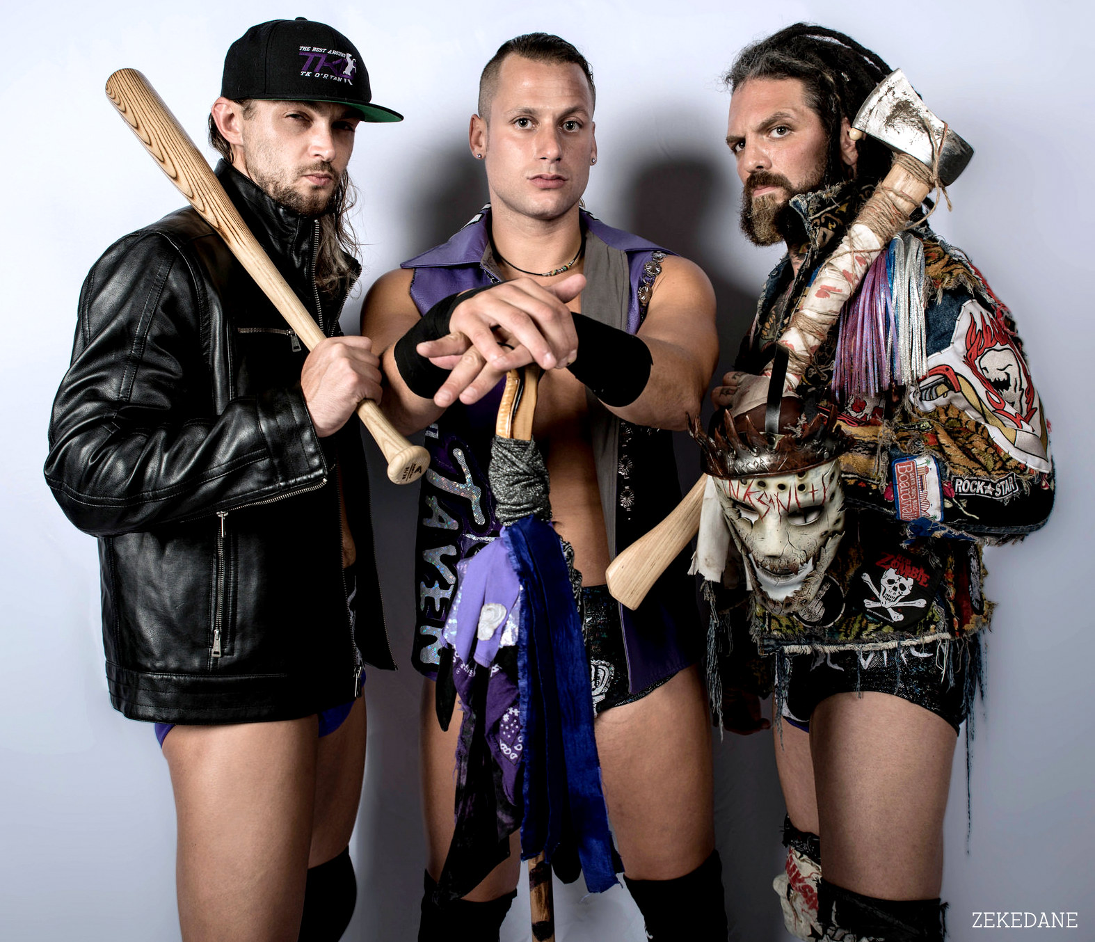 Ring of Honor's KINGDOM - TK O'Ryan, Matt Taven, Vinny Marsegial